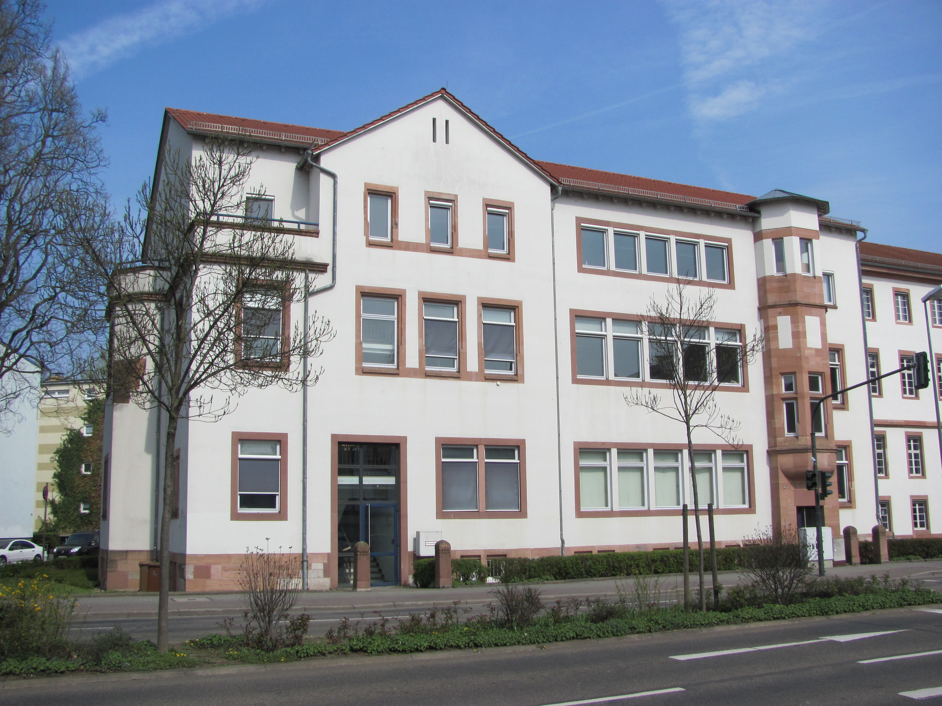 Court building Hanau